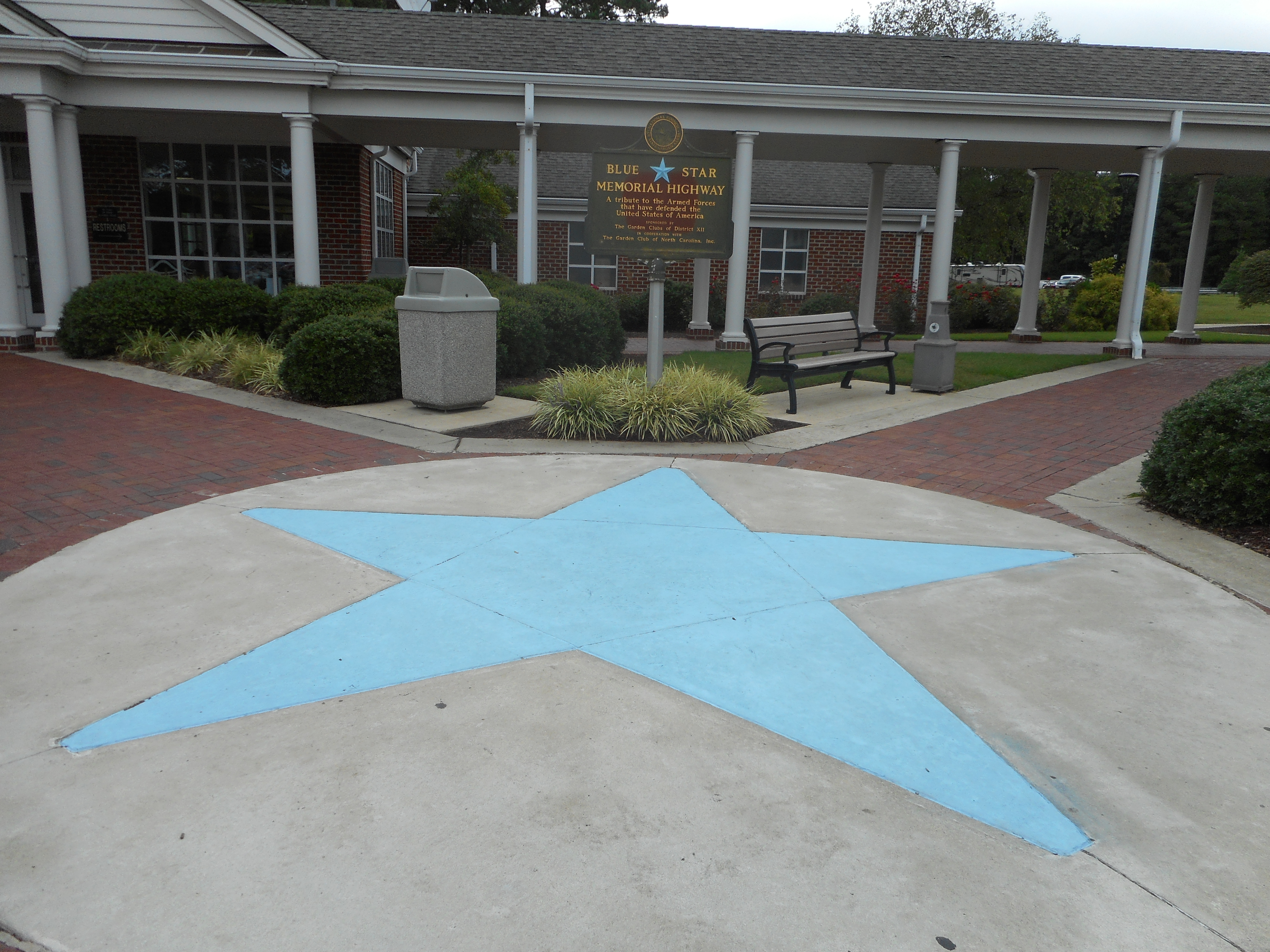 Not simply content with installing a plaque, the North Carolina Department of Transportation has a paved blue star at the base of the Blue Star Memorial Highway plaque at the courtyard of the southbound Interstate 95 North Carolina Welcome Center in Pleasant Hill Township, Northampton County, North Carolina.